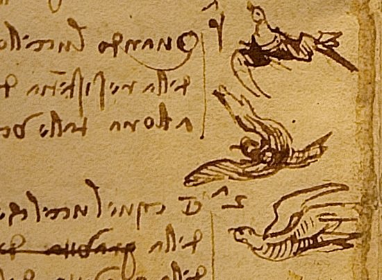 Detail:Codex flight of the birds by Leonardo da Vinci